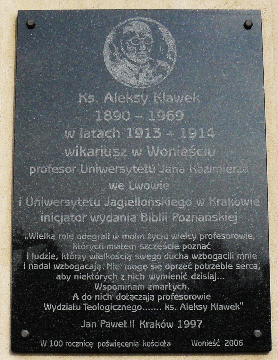 Aleksy Klawek-plaque, Woniesc, Church.